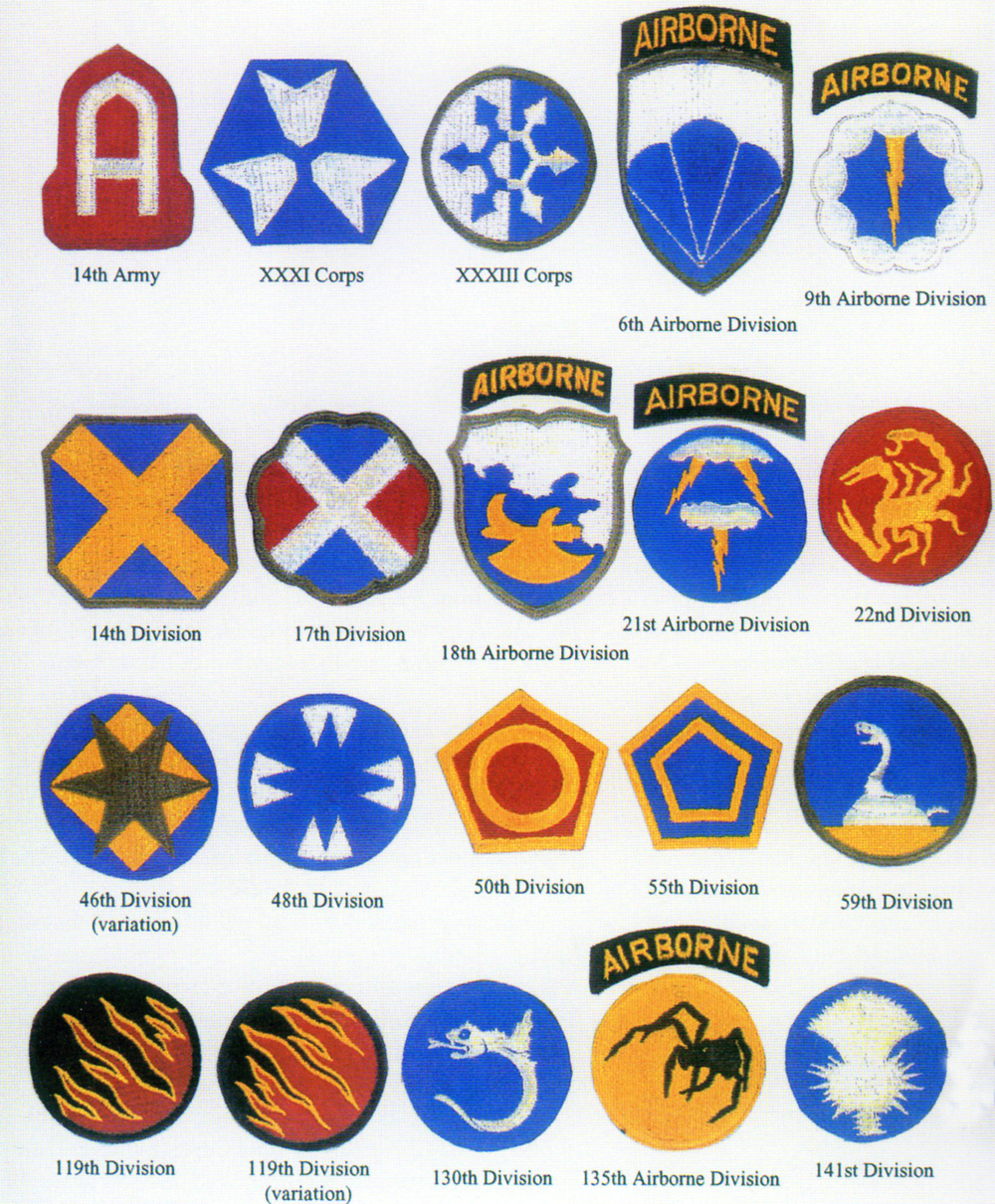 Shoulder sleeve insignia of some nonexistent units of "FUSAG", part of Operation Fortitude in 1944